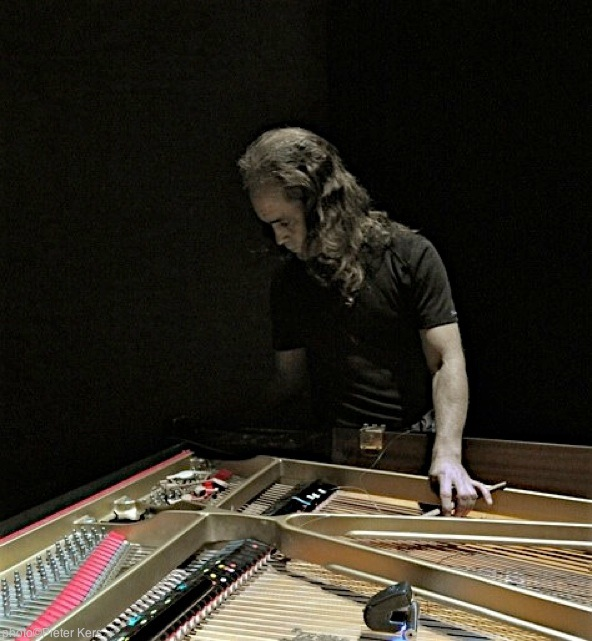 Performing with Thomas Köner